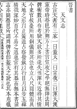 A page from the Gǔjīn Túshū Jíchéng